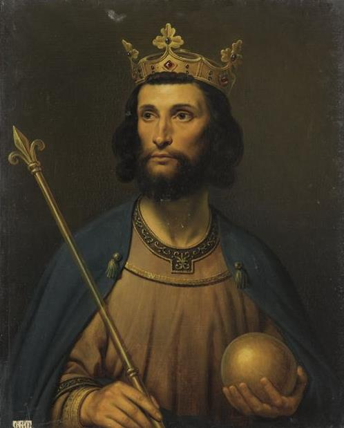 Odo, king of France